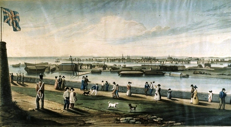 Print, Kingston from Fort Henry, James Gray, 1828, 29.6 x 54.9 cm